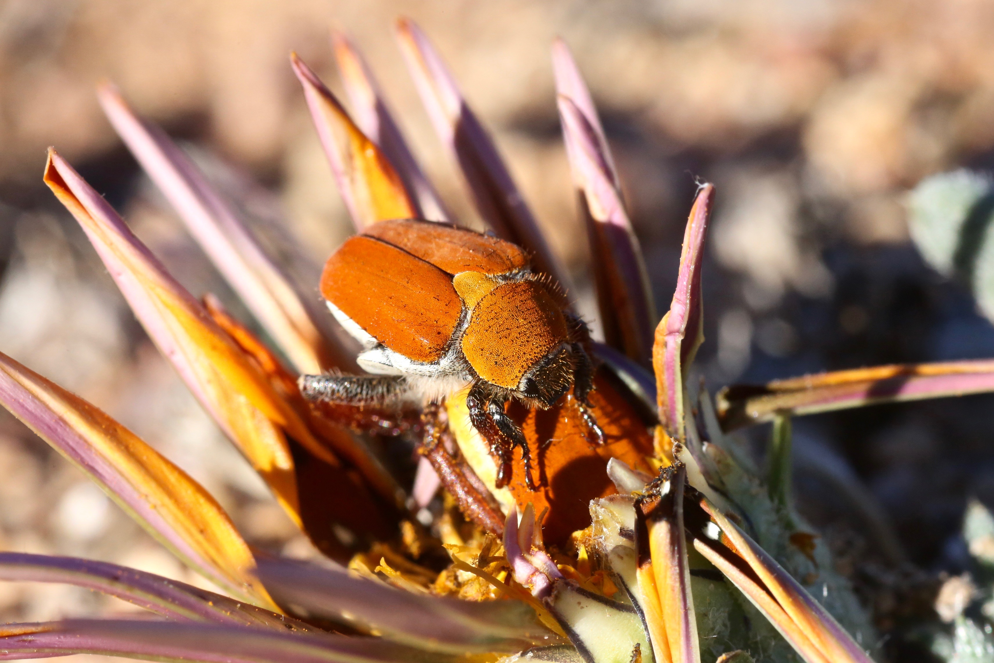 IVO Skilpad, Namaqua National Park, Northern Cape, South Africa